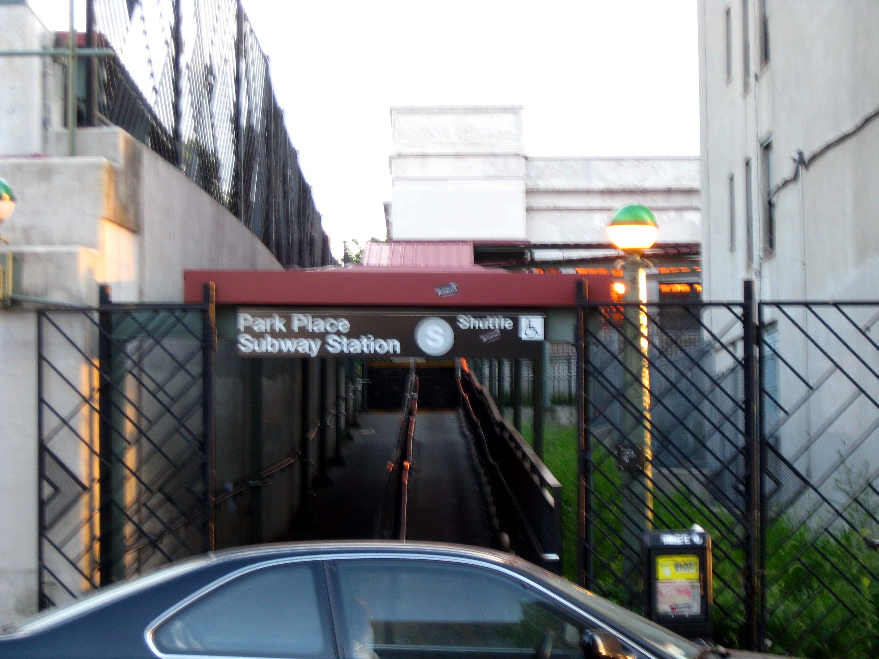 Looking south uphill from Prospect Street, at Park Place (BMT Franklin Avenue Line) near dusk on a partly cloudy evening with blurring.